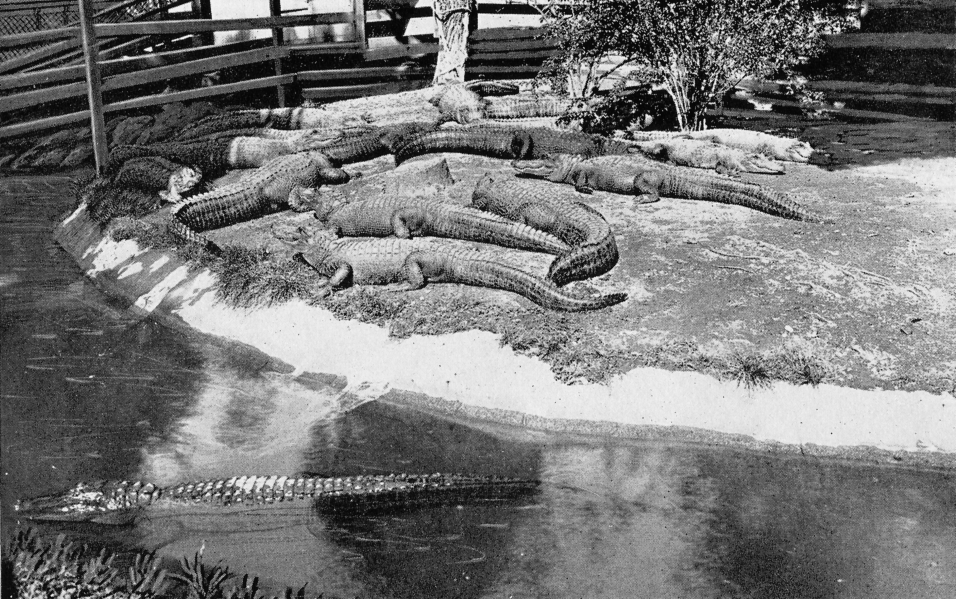 Alligator farm at Hot Springs. Published circa 1924.